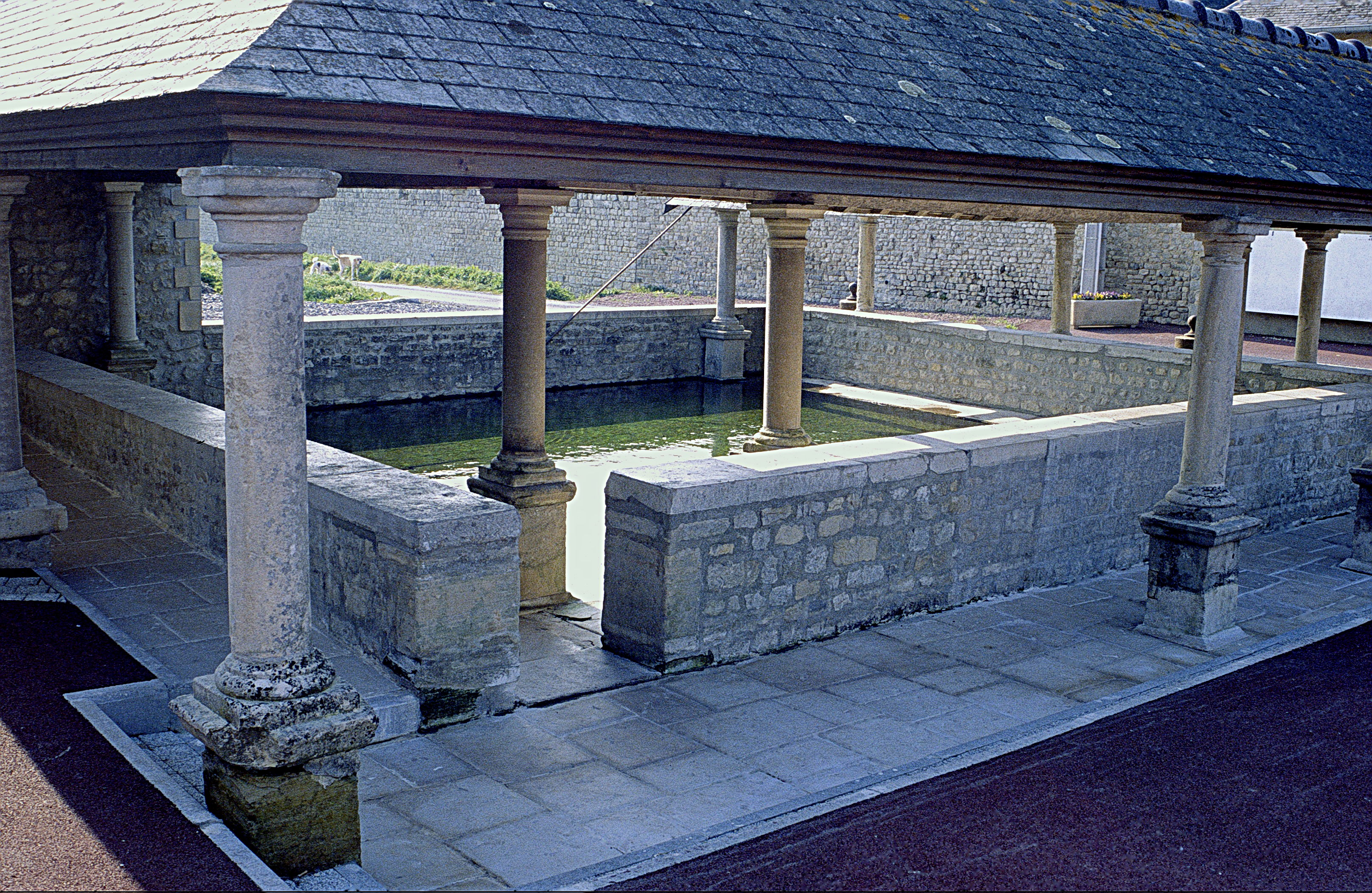 Wash house in Ecrammeville 14 Normandie France